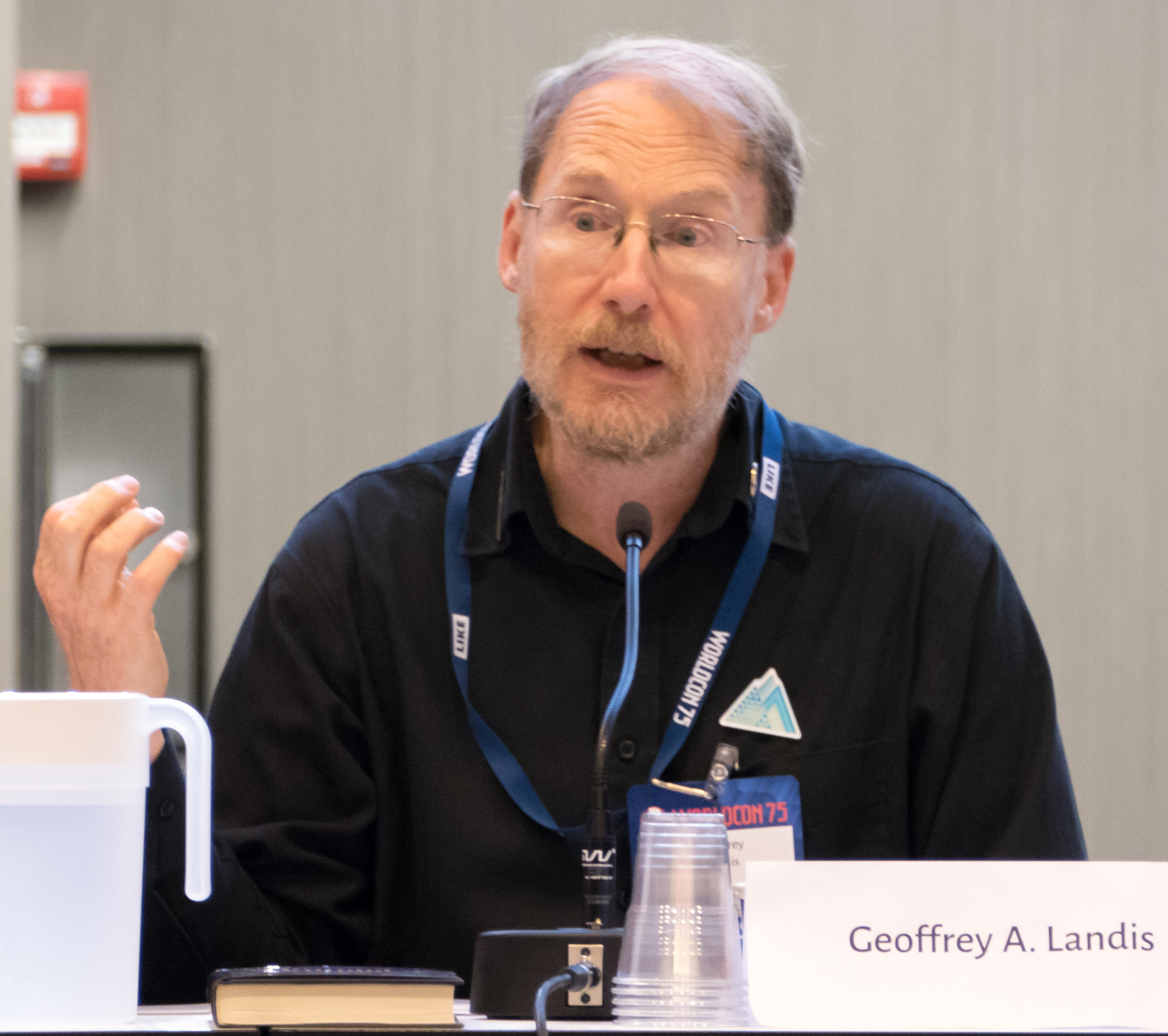 World Science Fiction Convention in Helsinki, 2017. Making Life Interplanetary: How Can Science Fiction Help? Geoffrey A. Landis